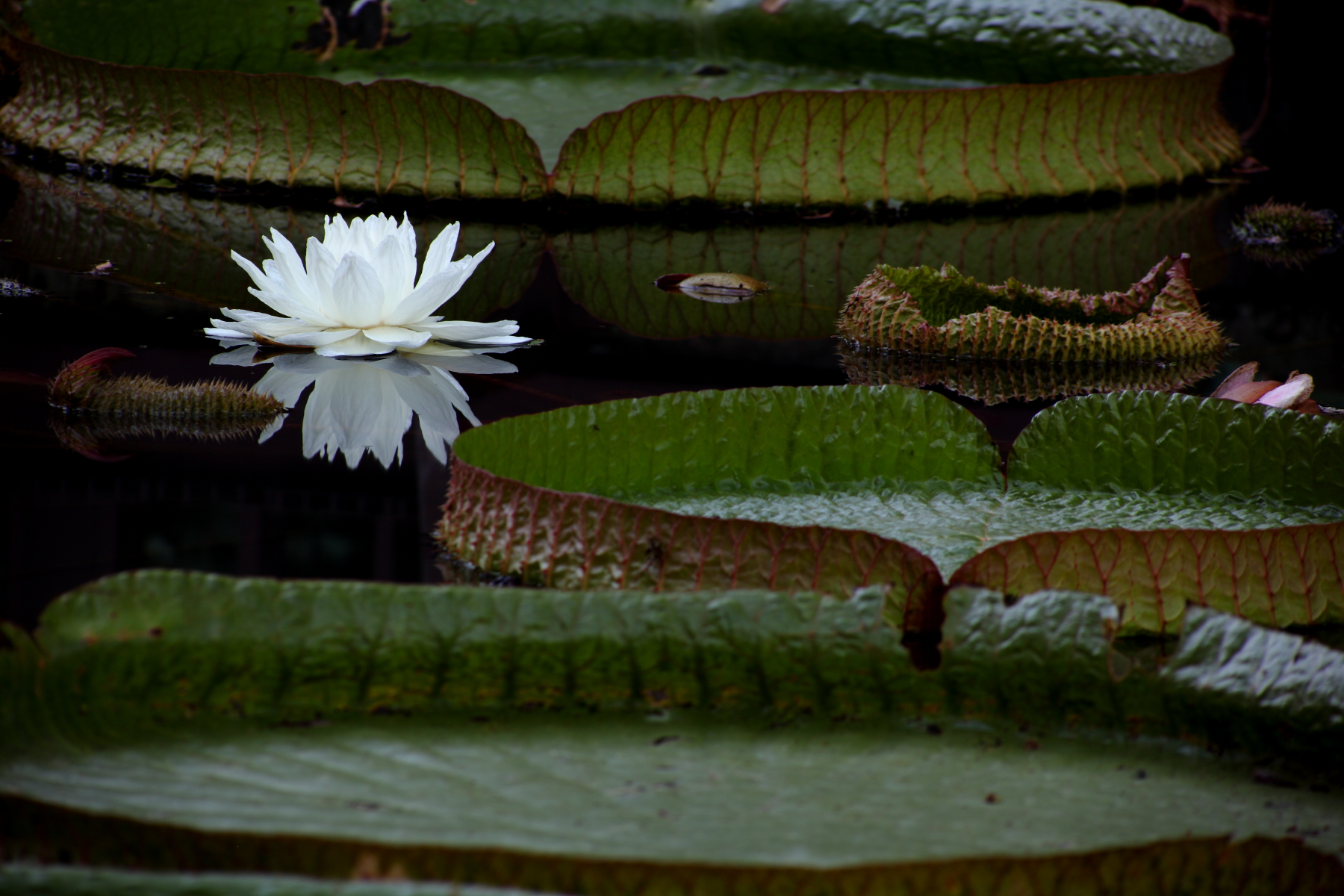 Victoria cruziana-Santa Cruz Waterlily.